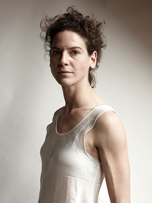 German actress Bibiana Beglau